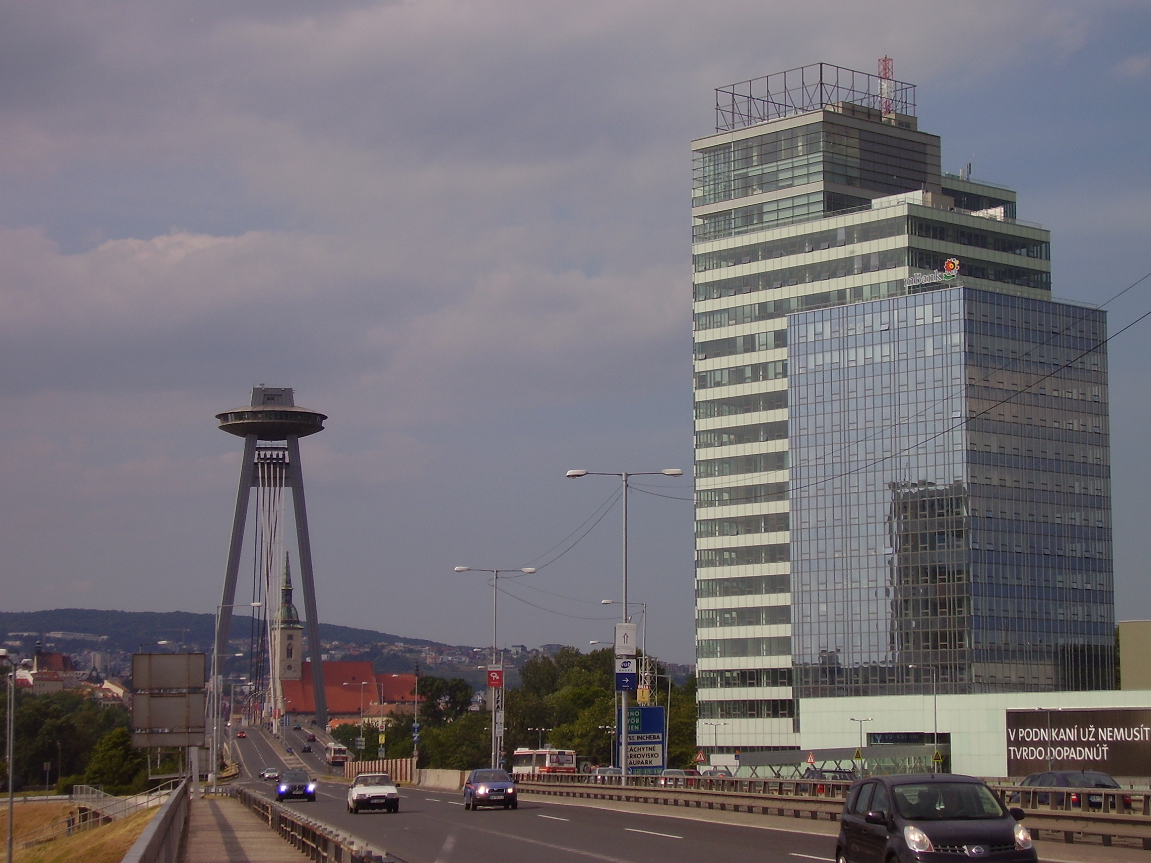 Nový most a Aupark Tower